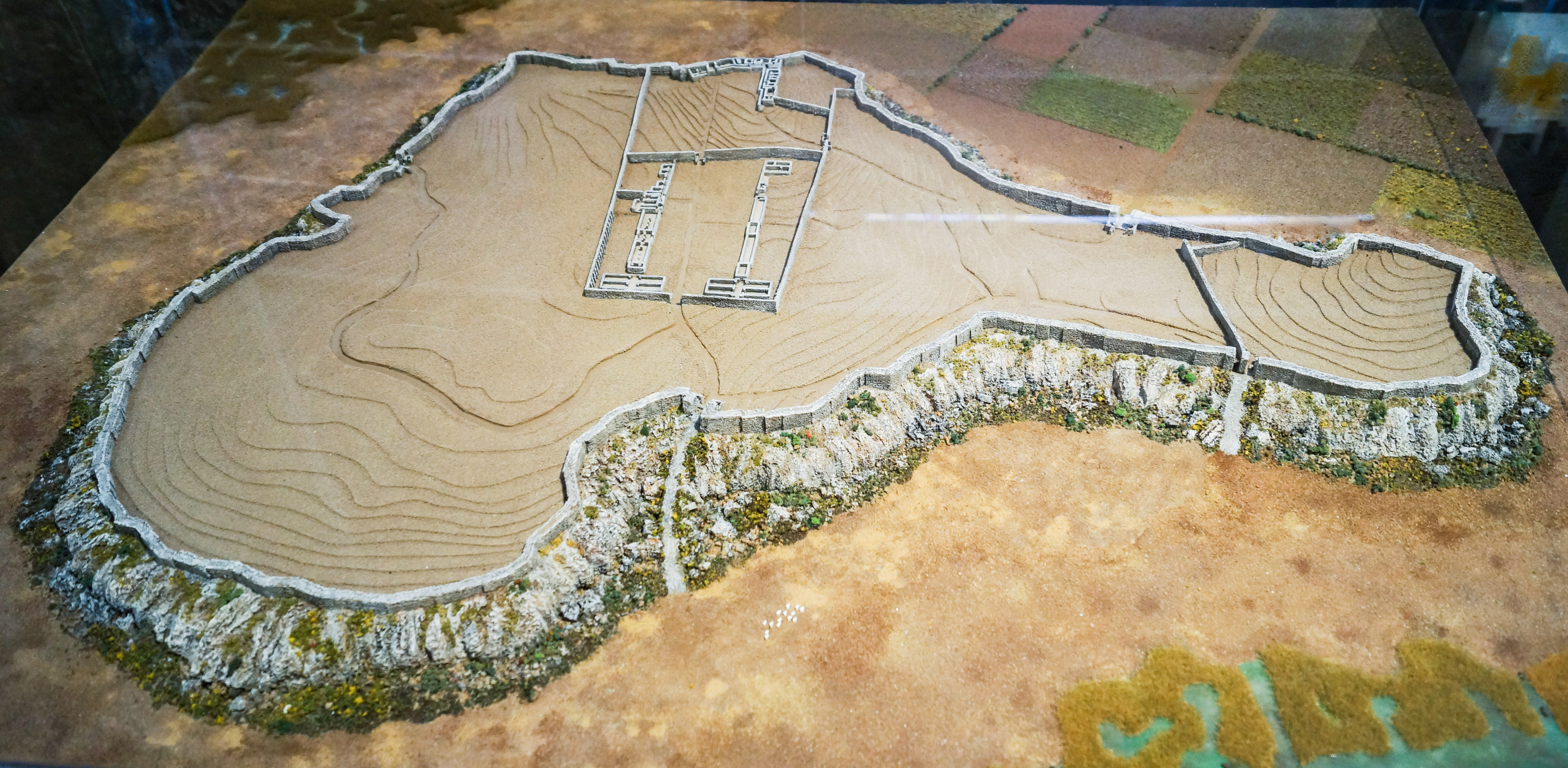 Archaeological Museum of Thebes, Greece: Modell of archaeological site of Gla.